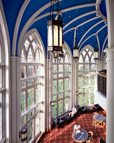 The "star room" of the Paul Barrett, Jr. Library at Rhodes